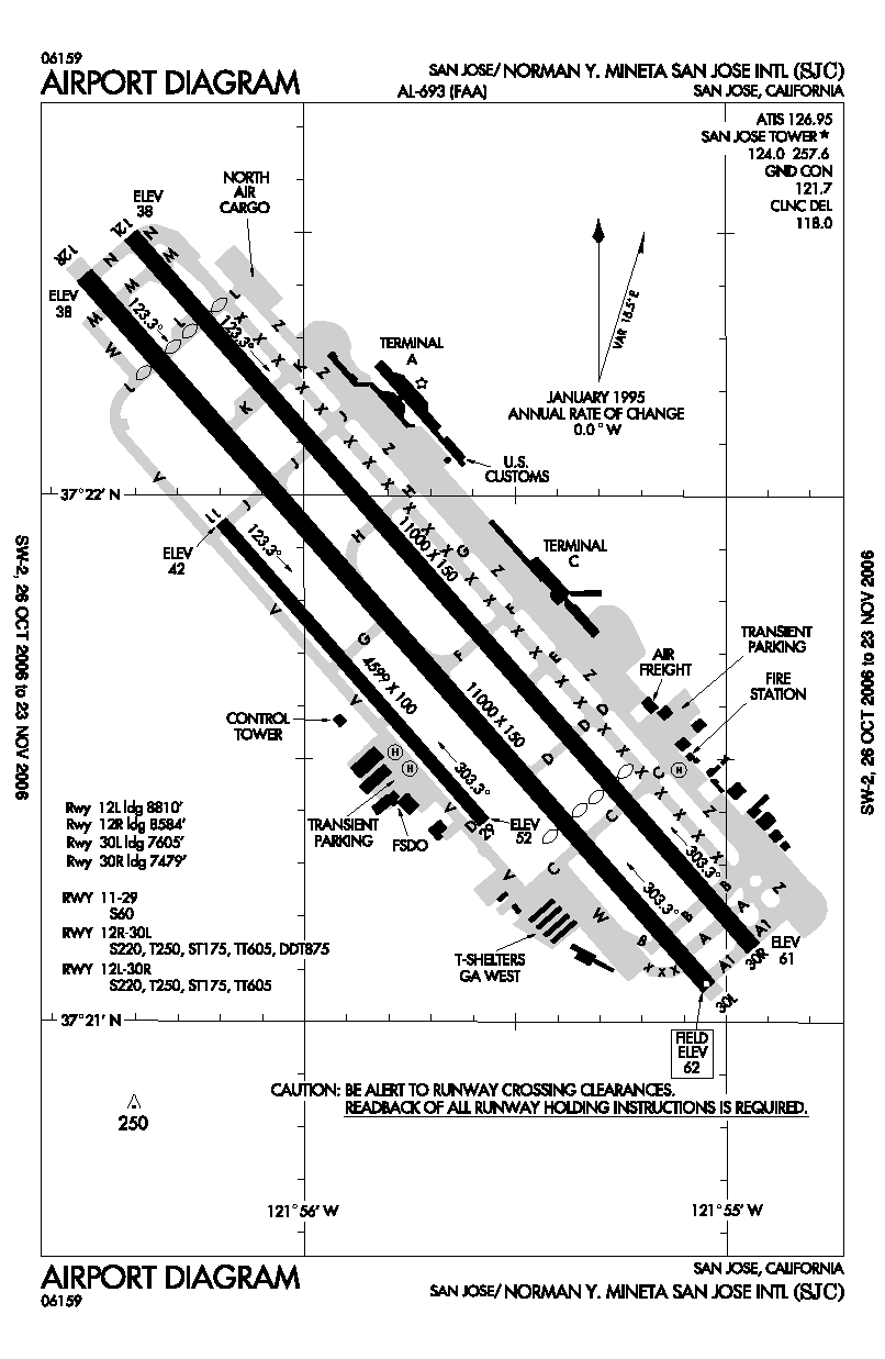 FAA airport diagram for SJC (Norman Y. Mineta San Jose International Airport) in California, United States.